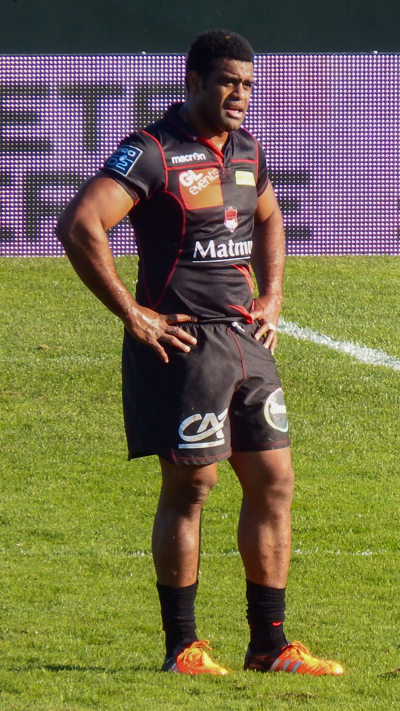 2015–16 Rugby Pro D2 season — 13 December 2015, Stade Maurice Boyau. Match between: US Dax — Lyon OU